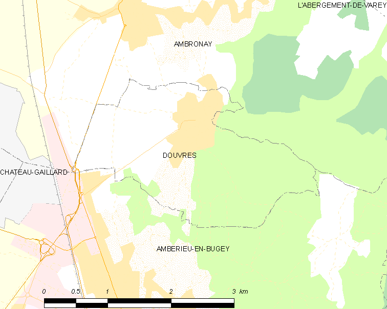 Map of French commune: Douvres Map commune FR insee code 01149.png